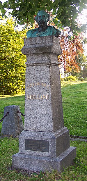 Sculpture of Alexander Kielland in Reknesparken in Molde.